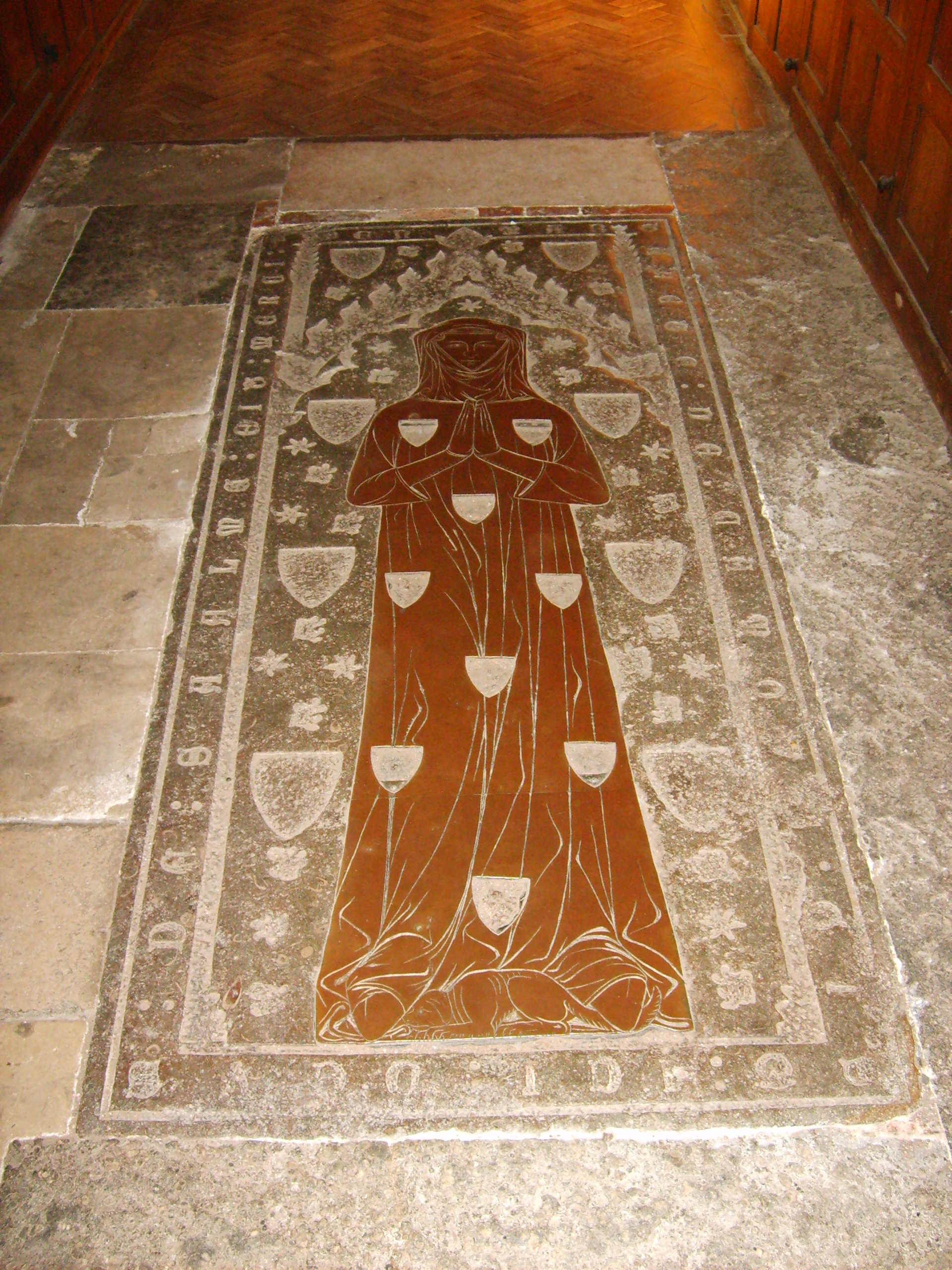 Monumental brass of Margaret, Lady Camoys (d.1310), set in the floor of St George's Church in Trotton, West Sussex. Inscription in Longobardic capitals: MARGARETE DE CAMOYS GIST ICI DEUS DE SA ALME EIT MERCI AMEN (Boutell, Charles, Monumental Brasses and Slabs: An Historical and Descriptive Notice of the ..., p.81[1], with drawing). ("Margaret de Camoys lies here. May God have mercy on her soul [âme], Amen") This is the earliest surviving brass of a female figure in England (Macklin, Herbert Walter & Page-Phillips, John, (Eds.), 1969, p.68[2]). She wears around her neck a wimple (or gorget) which hides the chin and sides of the face. This style of dress continued in fashion until the end of the reign of King Edward III (1327-1377)(p.69)